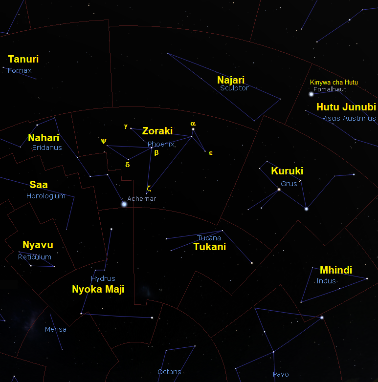 Constellation Phoenix as seen from Tanzania, Swahili labelled Kiswahili: Kundinyota Zoraki (Phoenix) jinsi inavyoonekana kutoka Tanzania, majina kwa Kiswahili